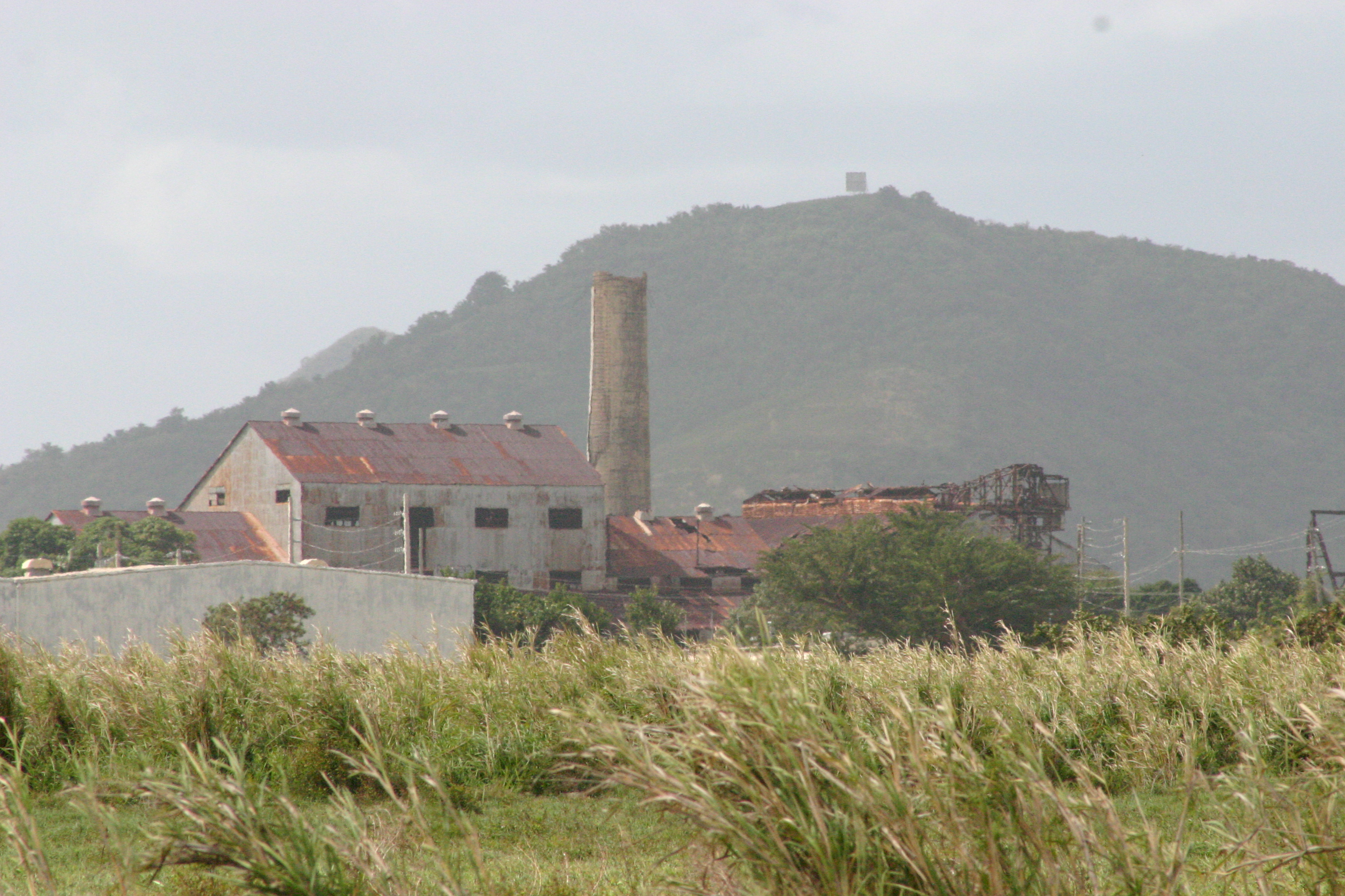 1/24/2006: Another inert Sugar Mill. This one been inactive for over 20 years. It's located in Arroyo, PR in the south-east of PR.